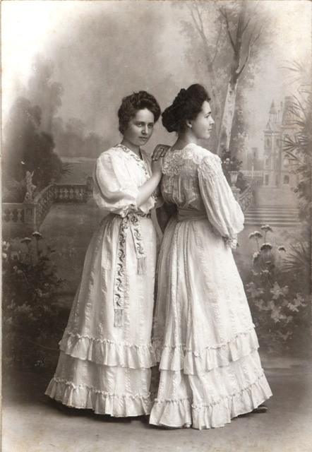 Olga and Lyuba Splitek by Andrey Andreev